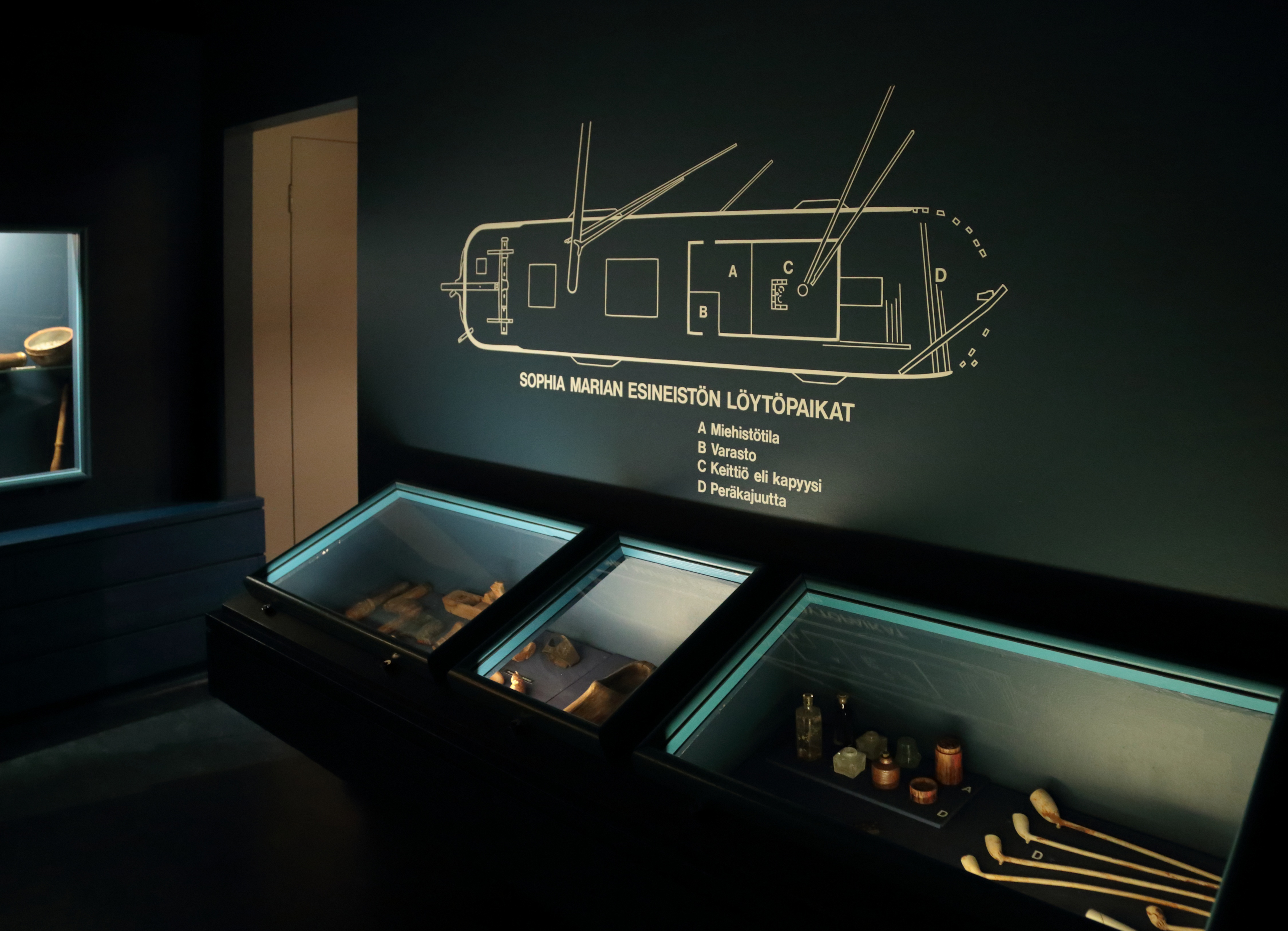 Northern Ostrobothnia museum exhibition of objects found in the wreck of Sophia Maria.